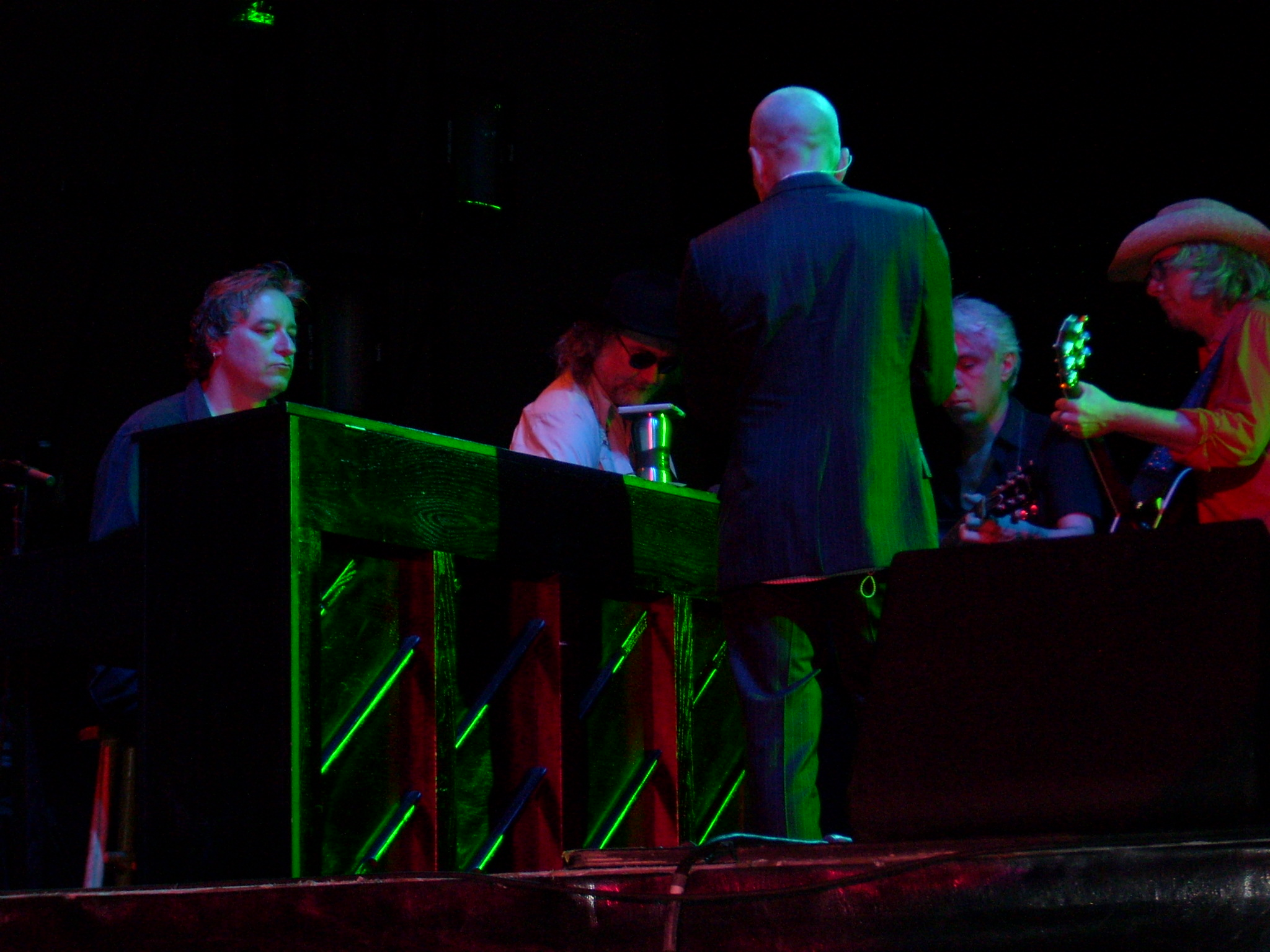 R.E.M. huddled together to play the Kurt Cobain tribute "Let Me In"